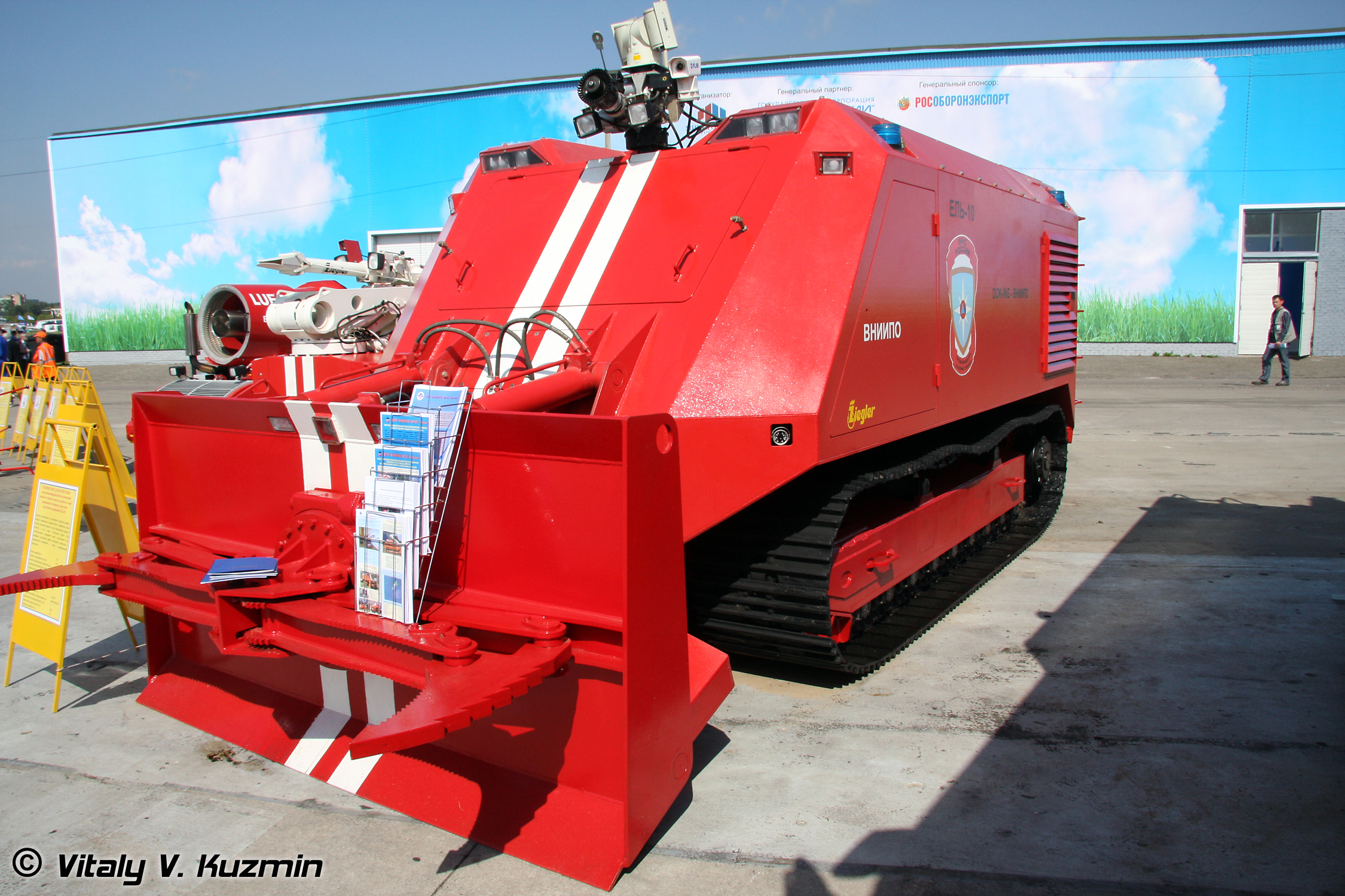 Unmanned firefighting vehicle El-10 - MAKS-2009